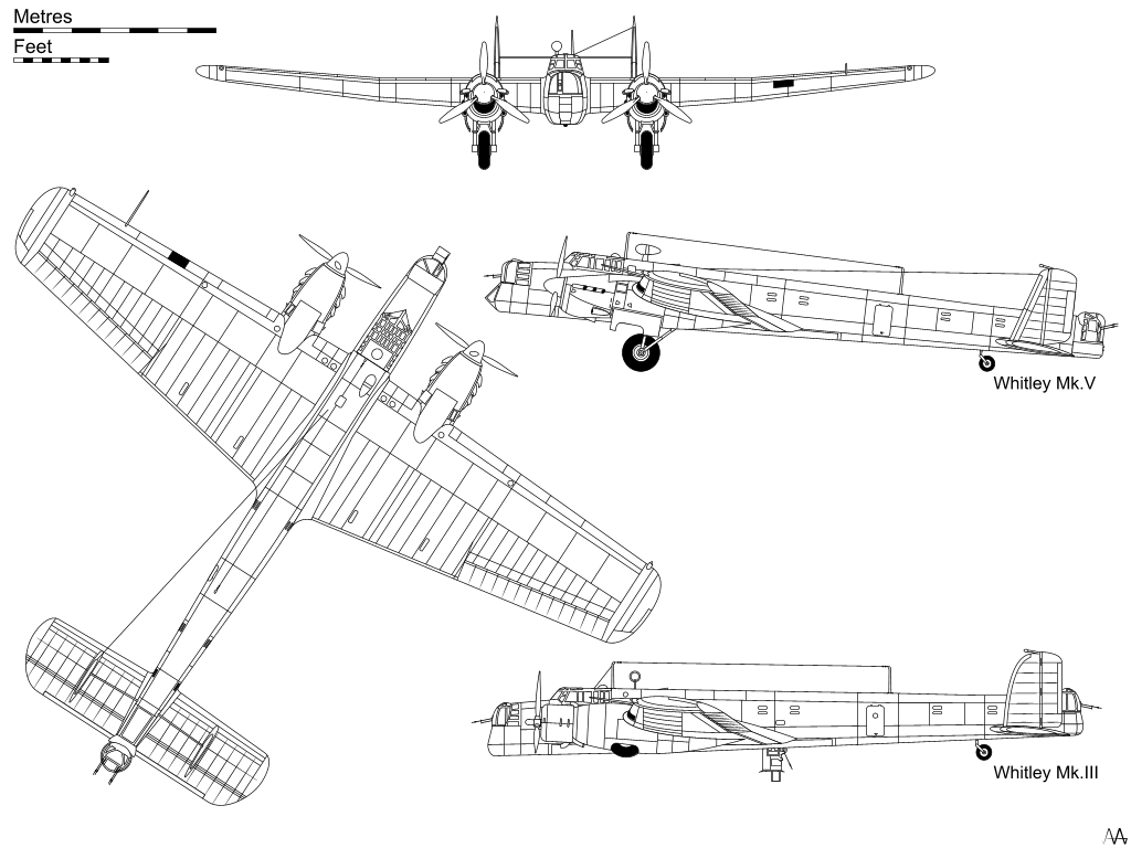 Orthographic projections of Armstrong Whitworth Whitley bomber